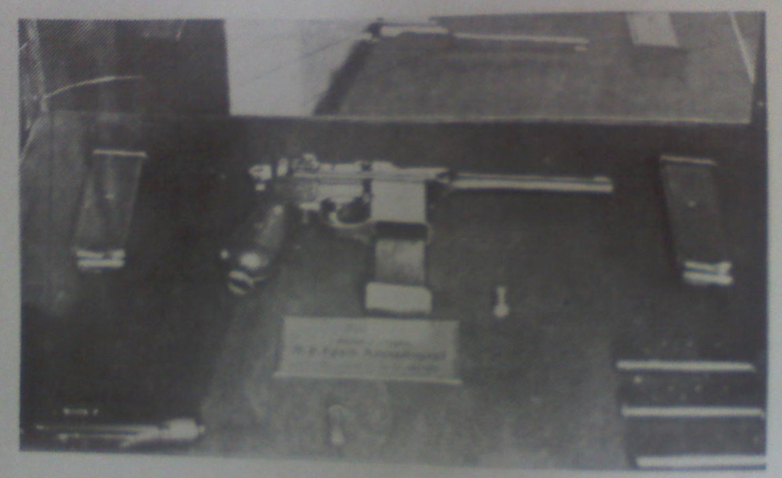 The automatic pistol of Vlado Georgieff Tchernozemsky with which he shot and killed King Alexander of Yugo-Slavia at Marseilles on the 9th of October, 1934. In a glass case, the pistol is on view in the National Museum of Belgrade. This photograph was taken by a correspondent of the Macedonian Tribune, and is published for the first time in the book of Christ Anastasoff.